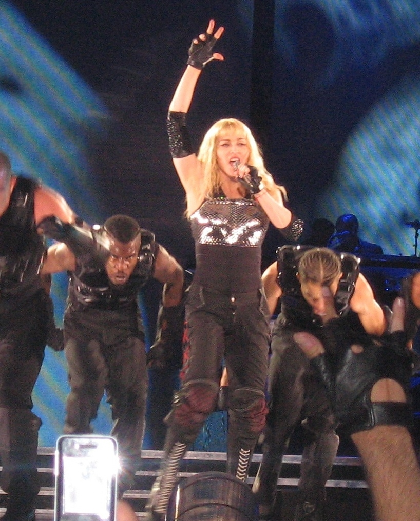 Picture taken at the concert